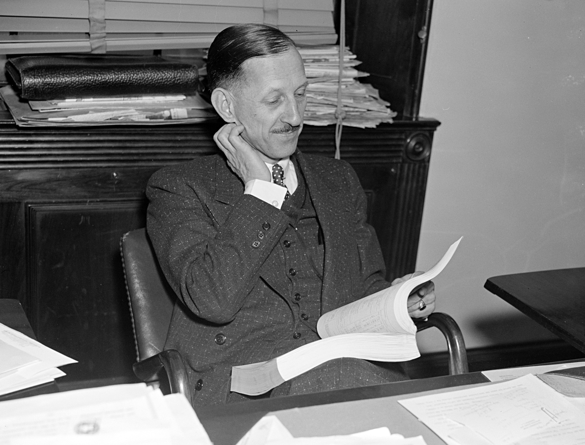 John D. Dingell, Sr., US Representative from Michigan